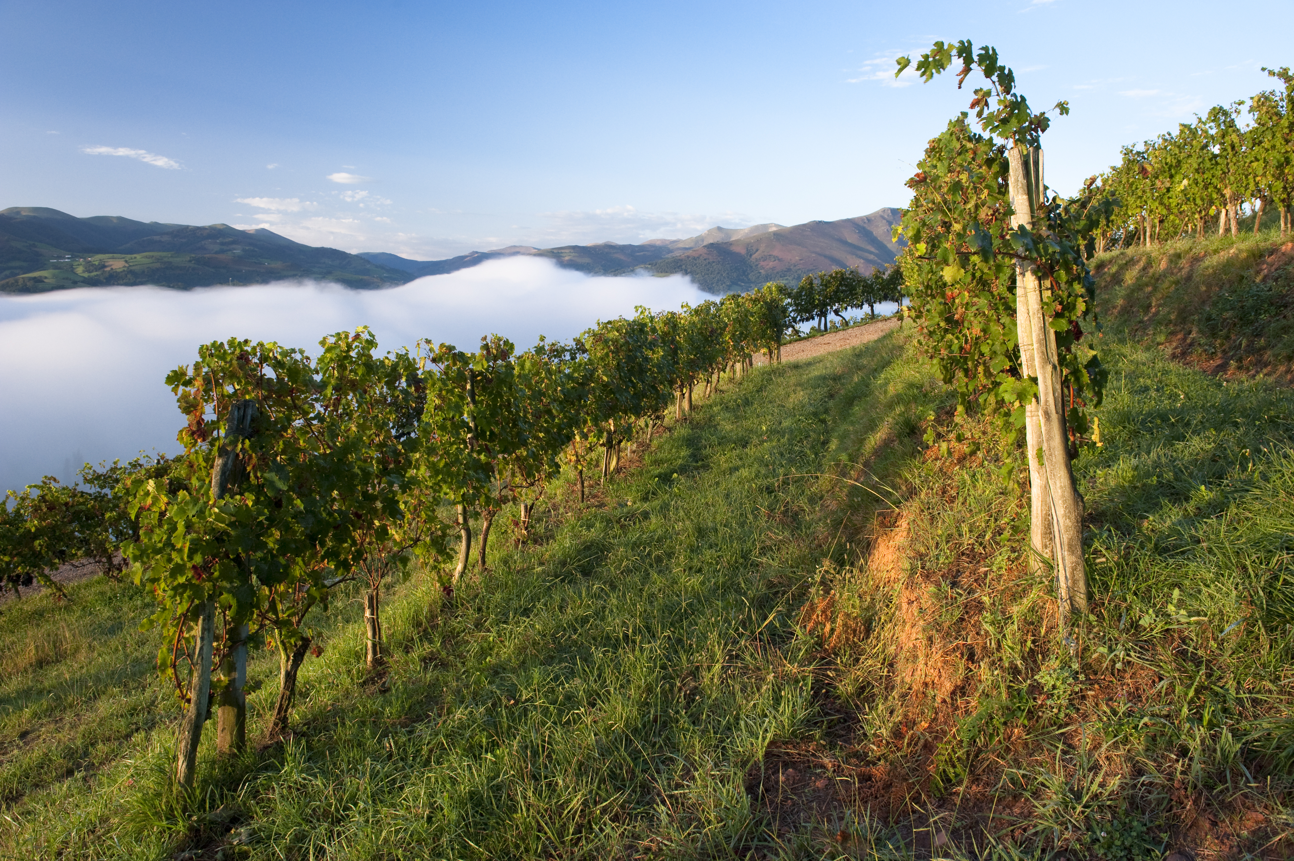 Vignoble d'Irouléguy à Ispoure.